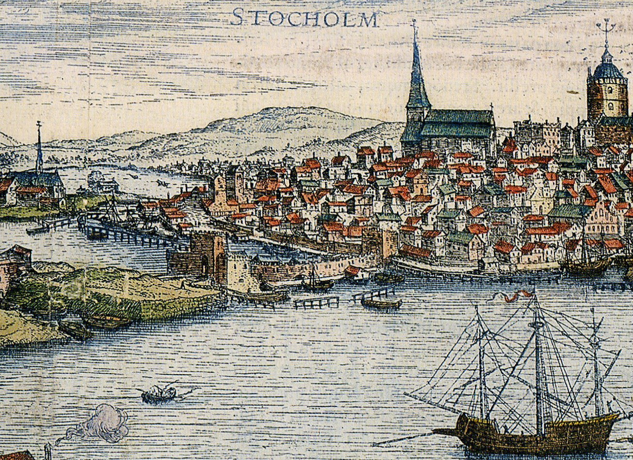 Copperplate of Slussen, Stockholm. Produced in the 1560s by Frantz Hogenberg.